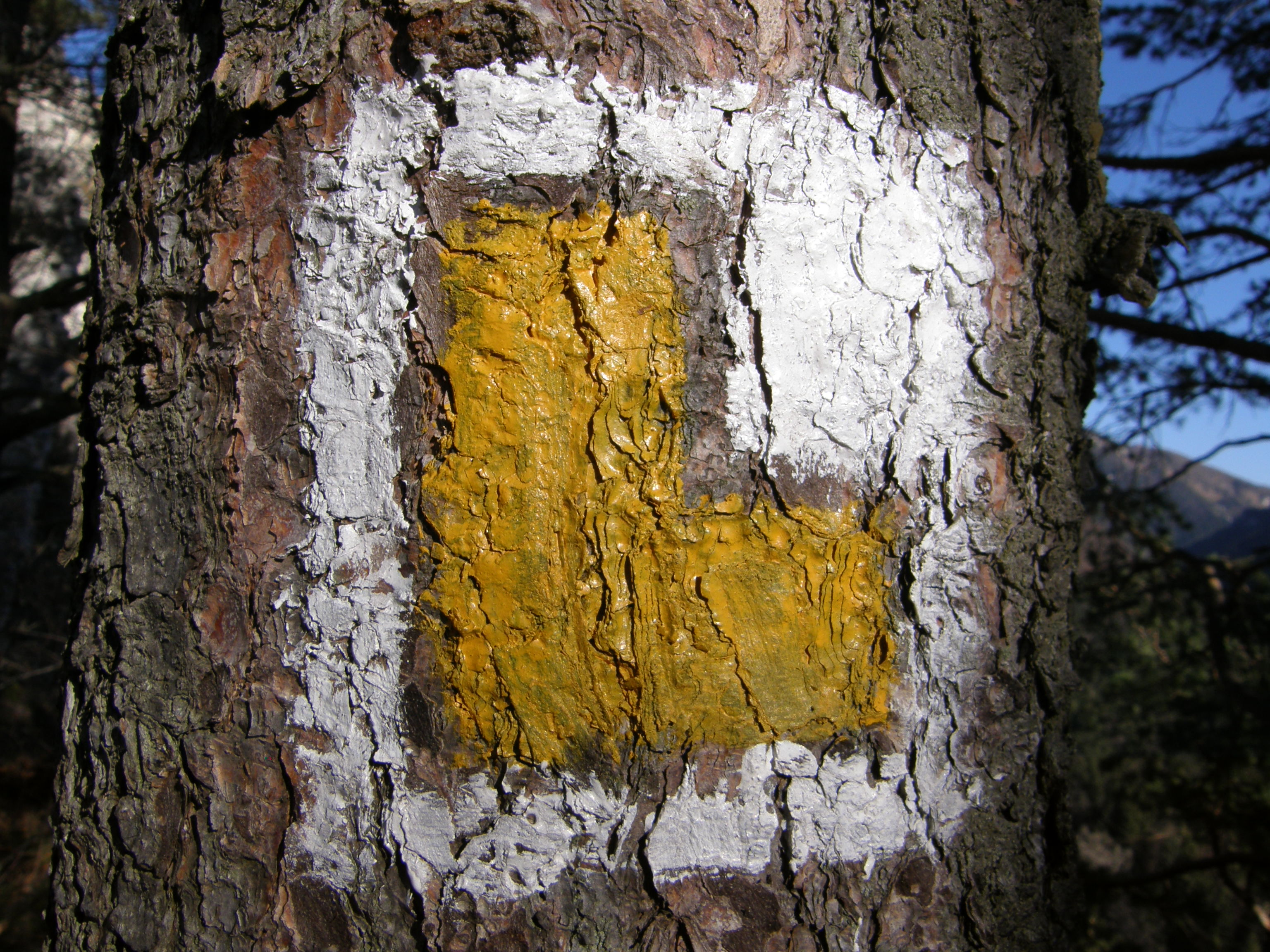 Hiking sign for a ruin used in Slovakia.